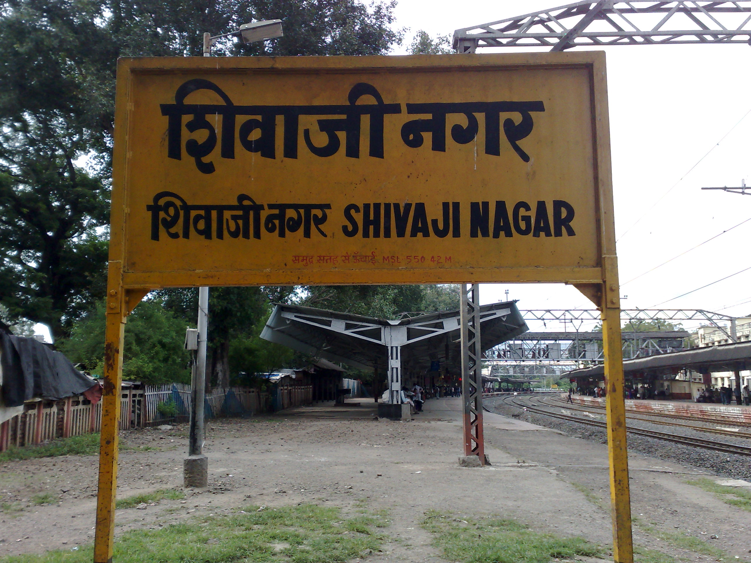 Shivaji Nagar stationboard